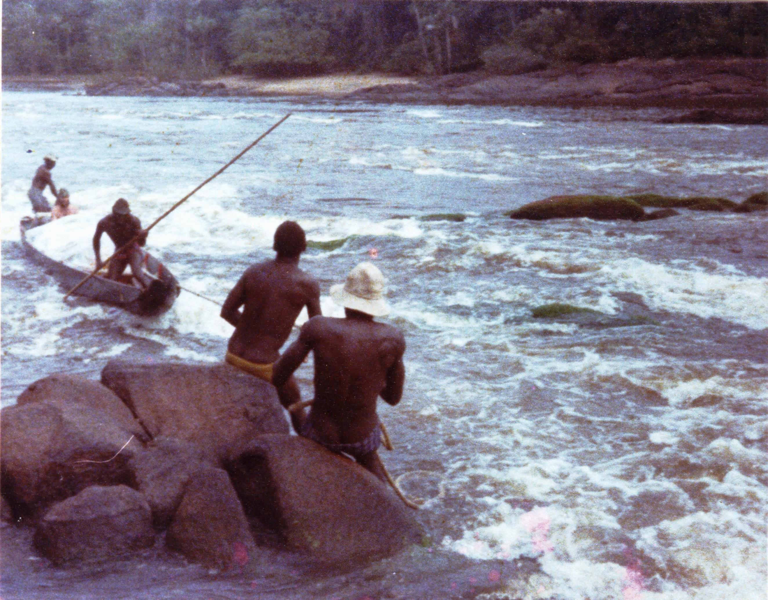 Photo taken in 1979. The French mission in French Guiana, on their way to the Wayana village of Antecume Pata, crossing the Léssé Dédé Falls of the Maroni River, one fall downstream of the town of Grand-Santi.